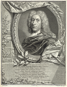 Portrait of Pieter Rabus